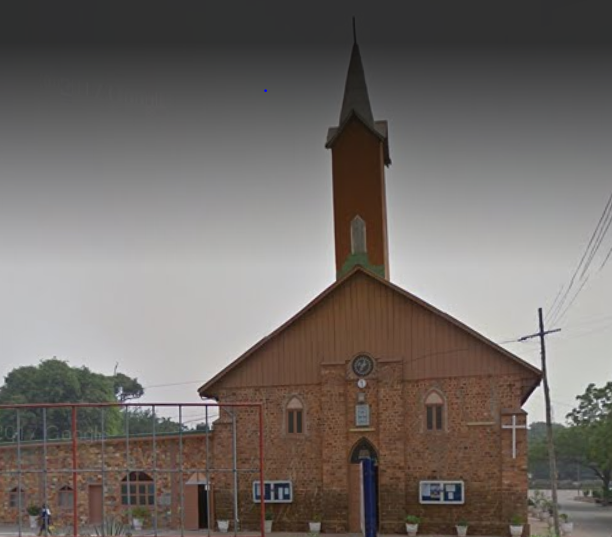 Personal photo of a Ghanaian historic church, Osu Ebenezer Presbyterian Church